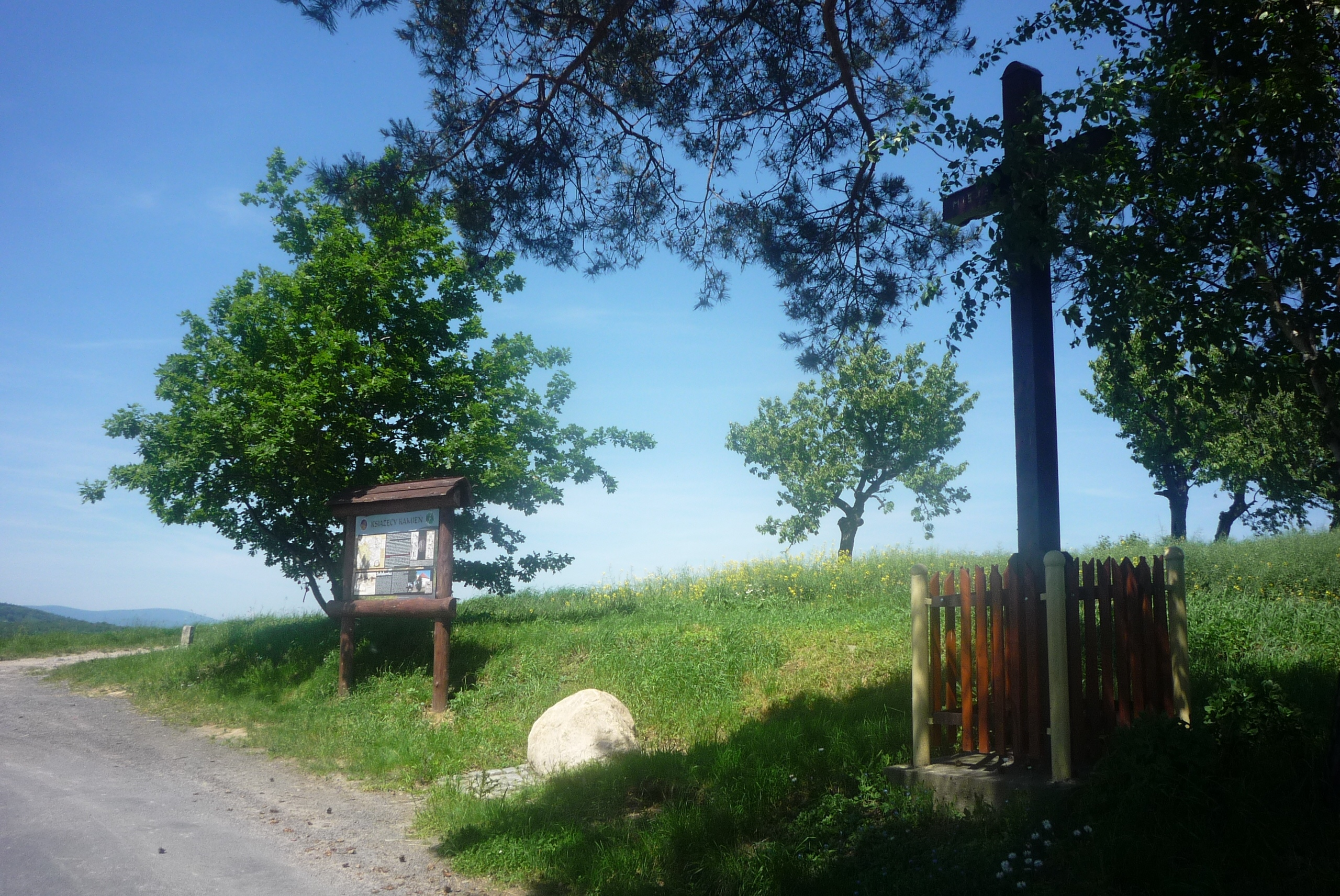 Fürst border stone lying to the west from Sulisławice village (Poland).